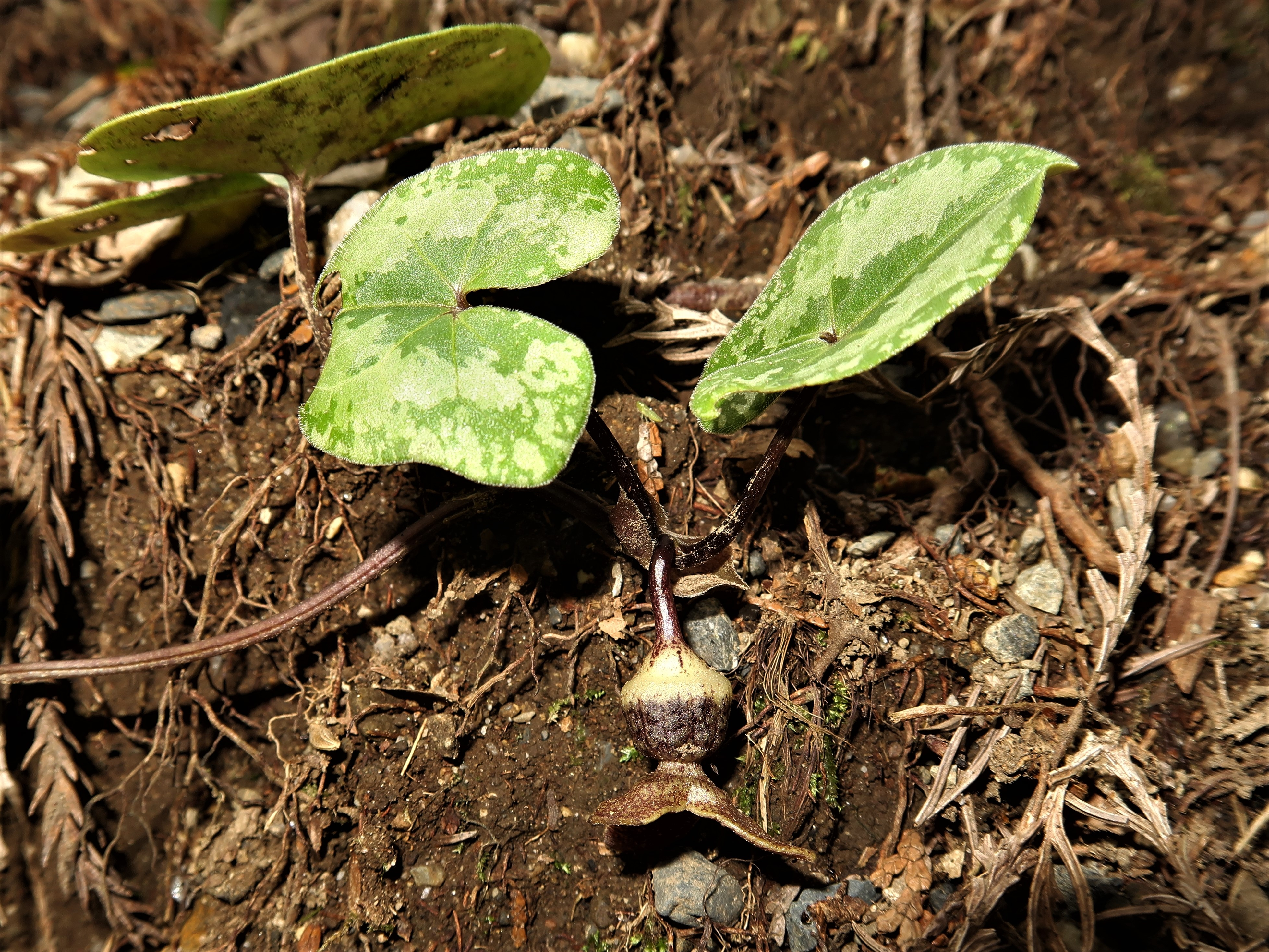 Asarum asperum, Otsu city, Shiga pref., Japan